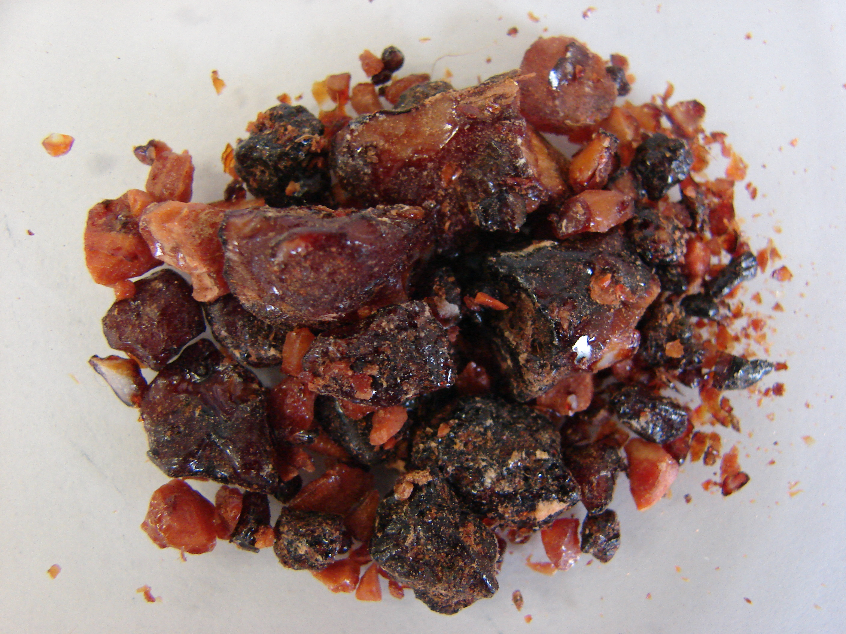 Benzoë siam, Styrax tonkinensis